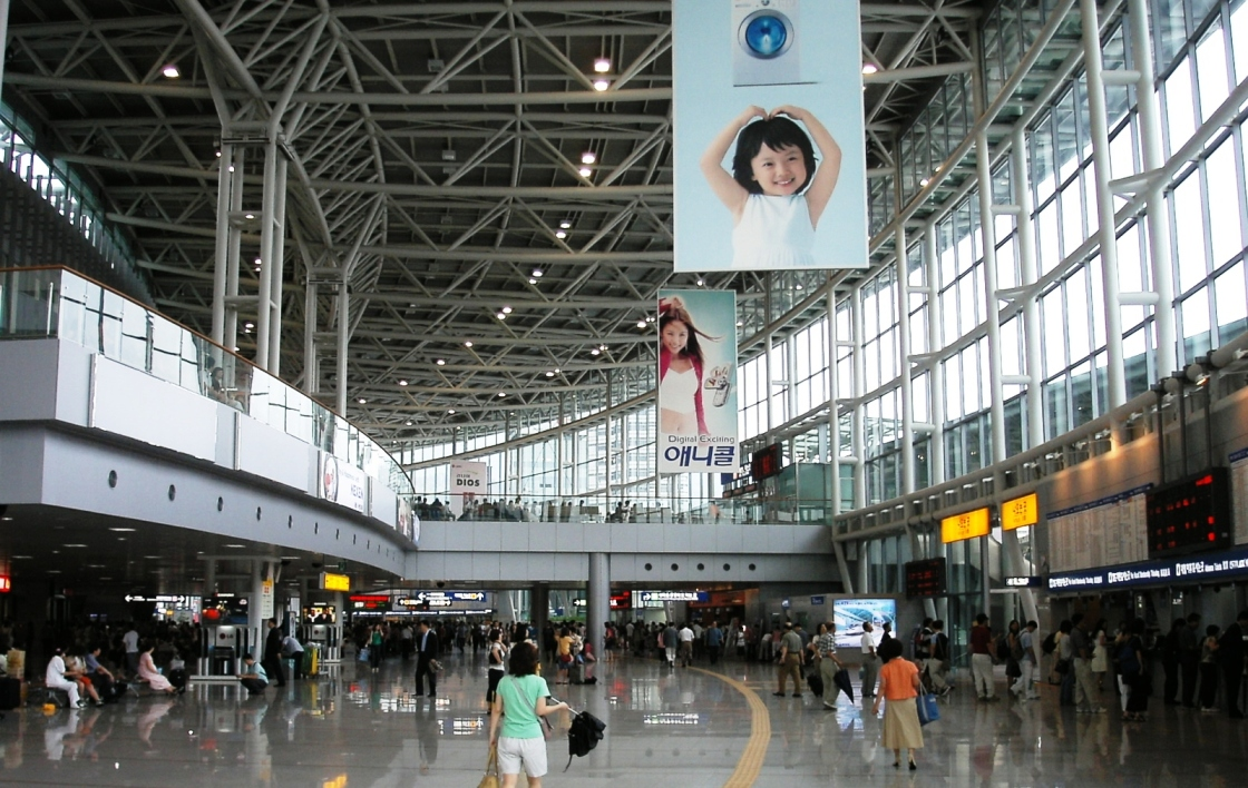 The concourse of Seoul station. It is 2nd floor ot the station, and ticked gate for Saemaul-ho, Mugunghwa-ho and Tonggeun can be seen on the right side. Ticket gate for KTX is in 3rd floor.